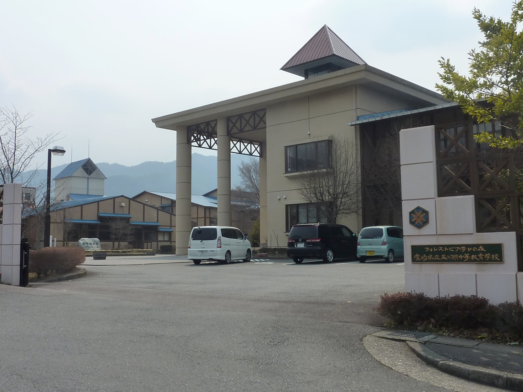 Miyazaki Prefectural Gokase Secondary School (Gokase Town, Miyazaki, Japan)